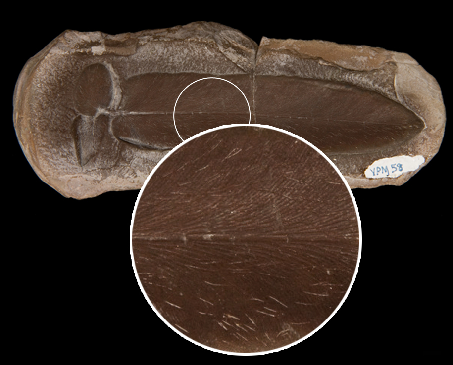 Neuropteris decipiens? (Macroneuropteris scheuchzeri); North America; USA; IlliNeuropteris decipiens? (Macroneuropteris scheuchzeri); North America; USA; Illinois; Grundy County, YPM PB 000058nois; Grundy County, YPM PB 000058